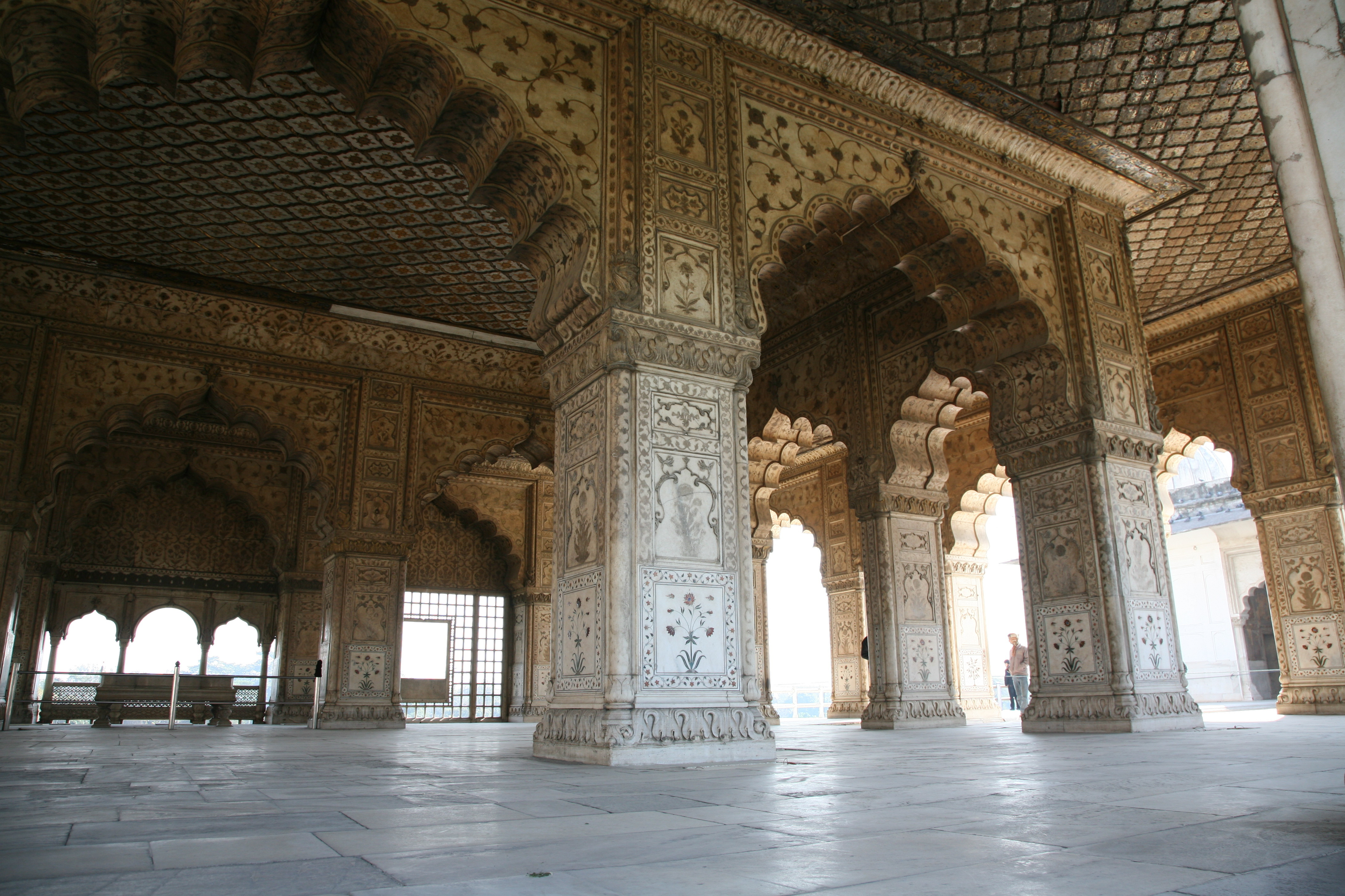 Diwan-i-Khas at the Red Fort, Delhi